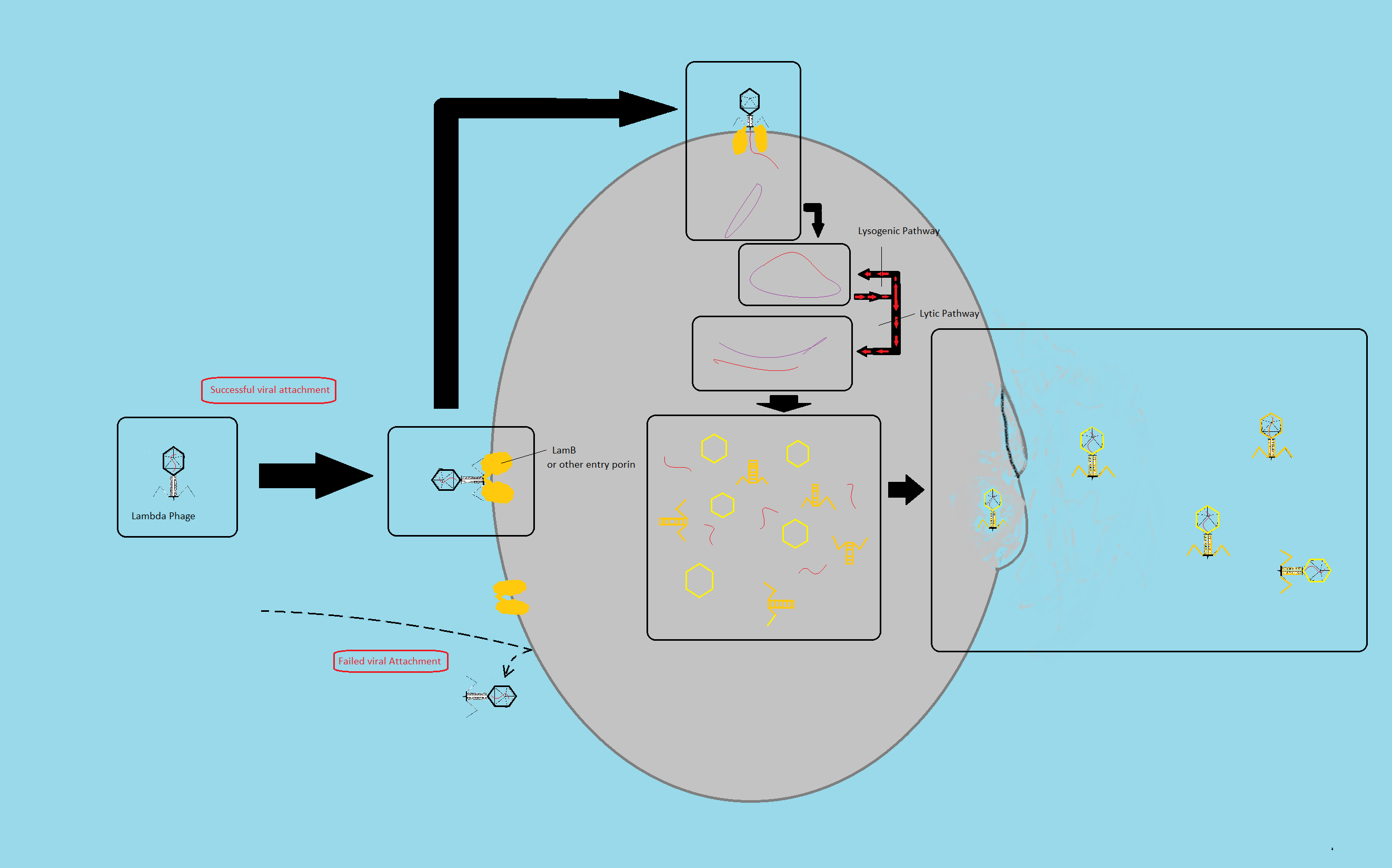 Shows temperate lifecycle of a lambda phage